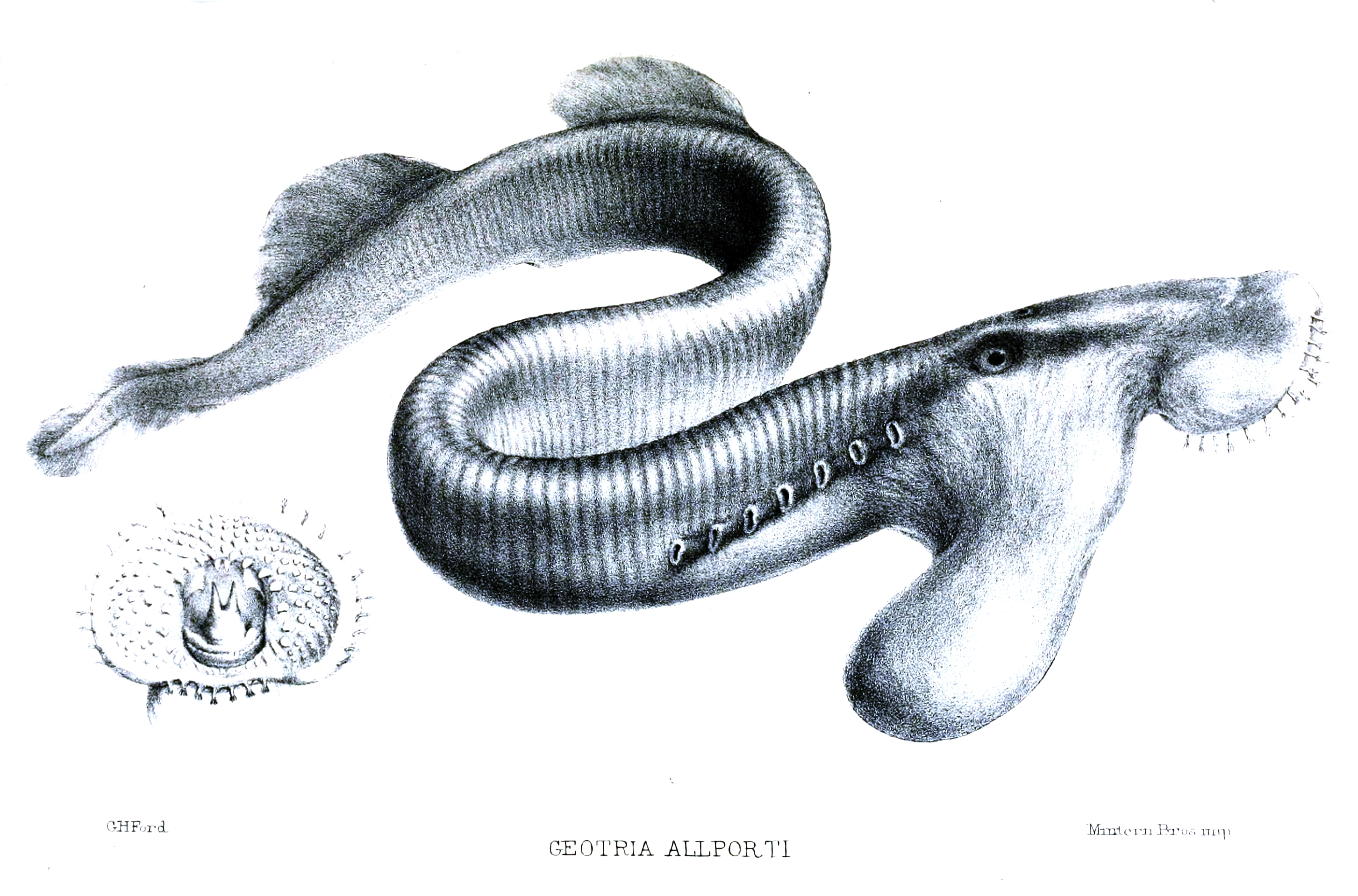 Adult male Pouched Lamprey with mouth from ventral